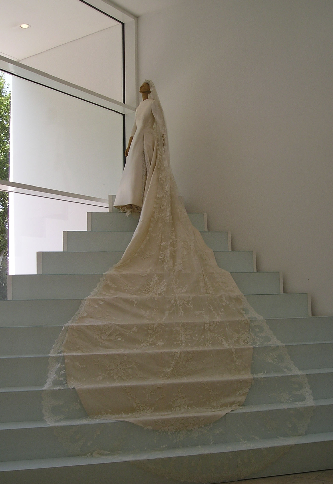 A wedding dress by Valentino at the exhibition "Valentino a Roma" at Museo Ara Pacis in Rome. The dress was worn by H.R.H. Crown Princess Máxima of Orange